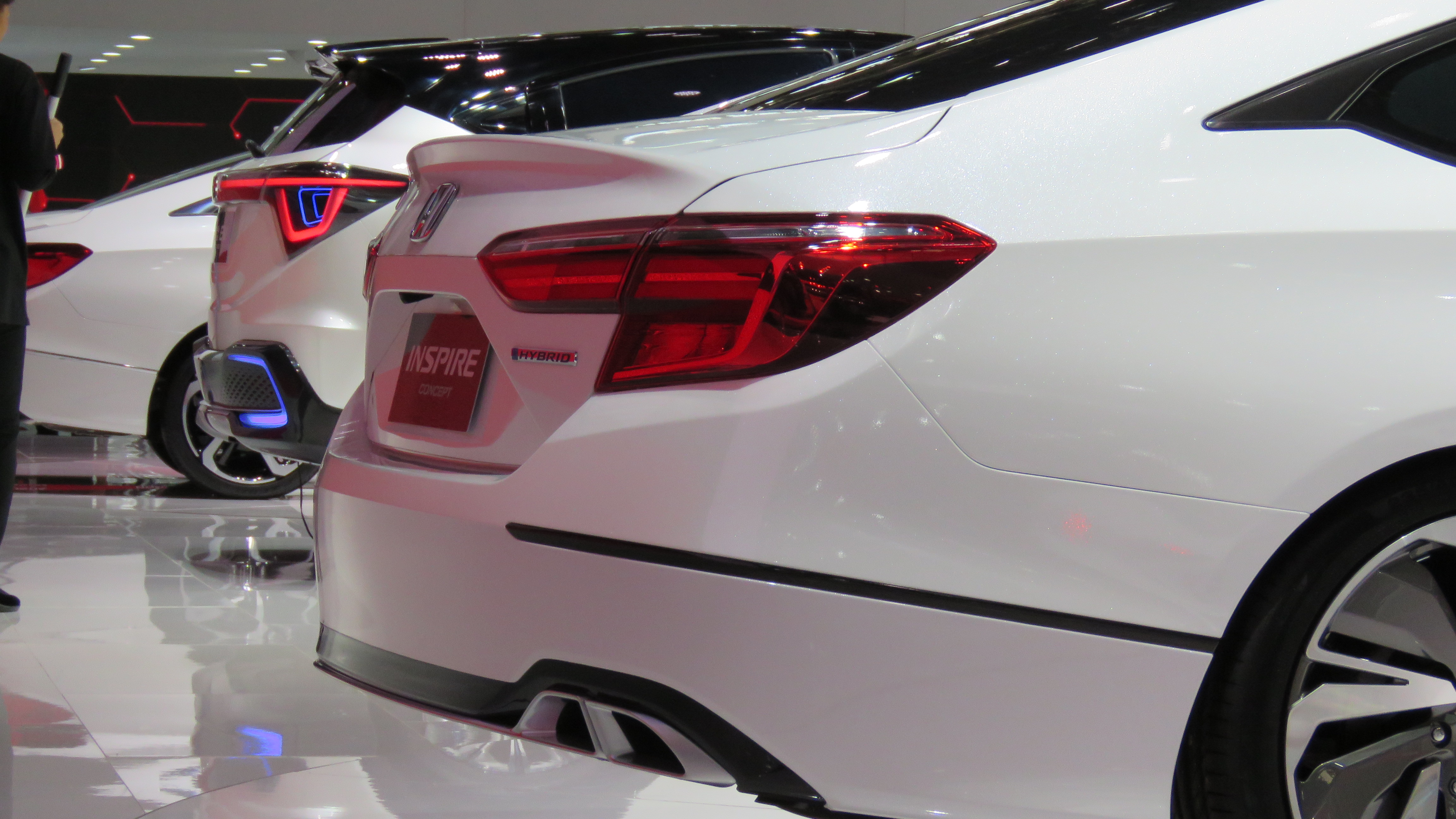 2018 Honda Inspire concept rear